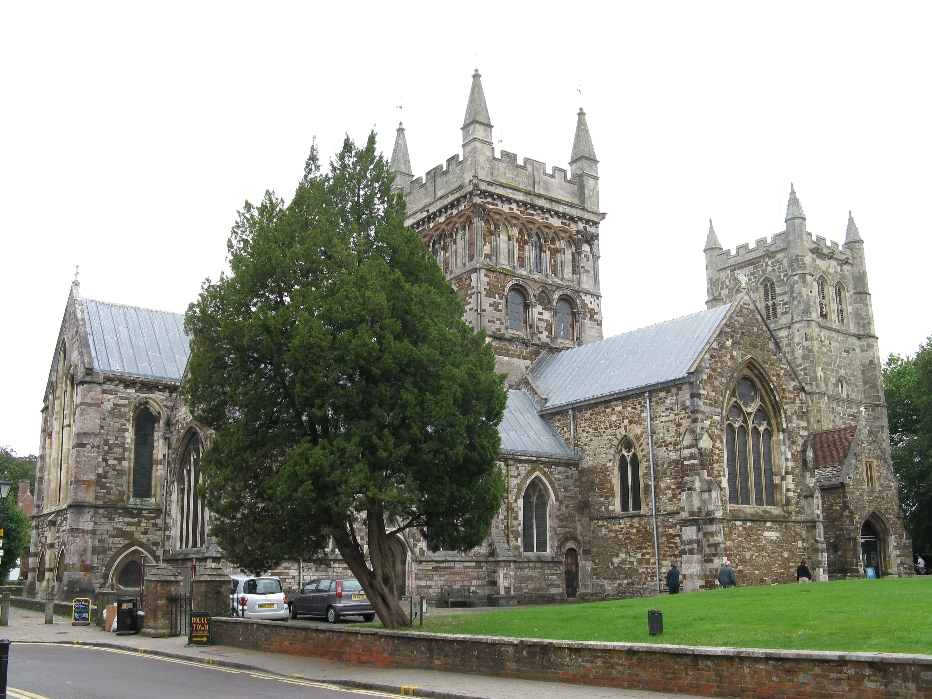 Wimborne Minster, Dorset